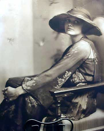 Katharine Cornell